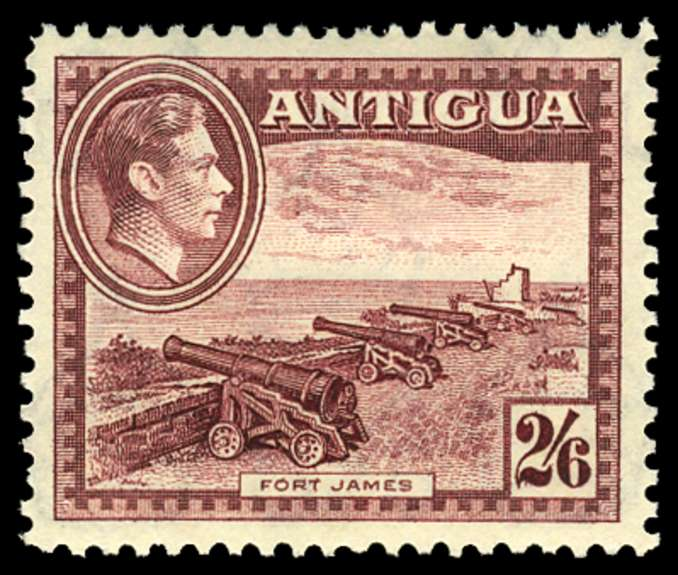 1942 2 shilling 6 pence stamp of Antigua showing Fort James.